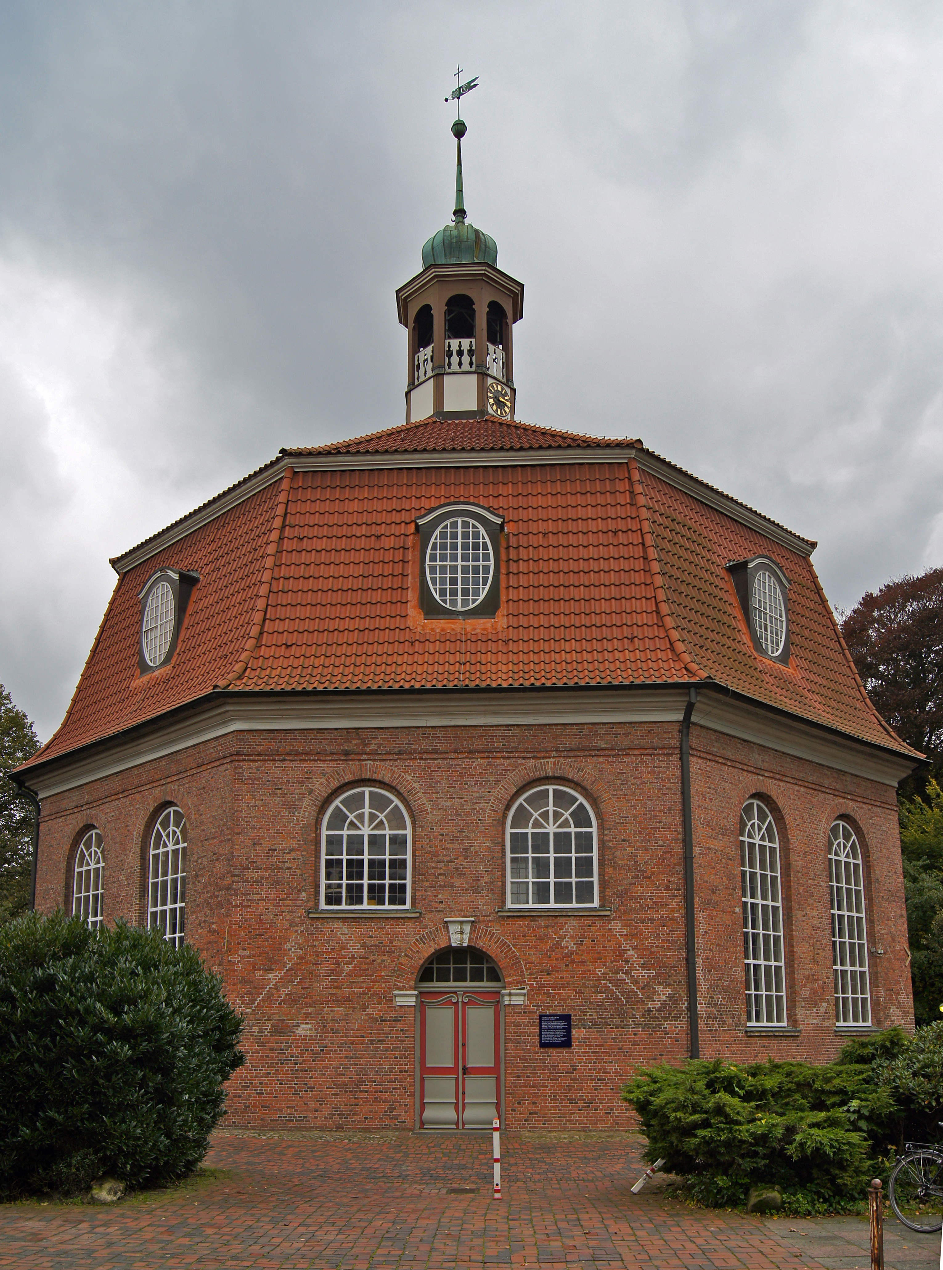 Hamburg (Niendorf), Germany: Church at the Market